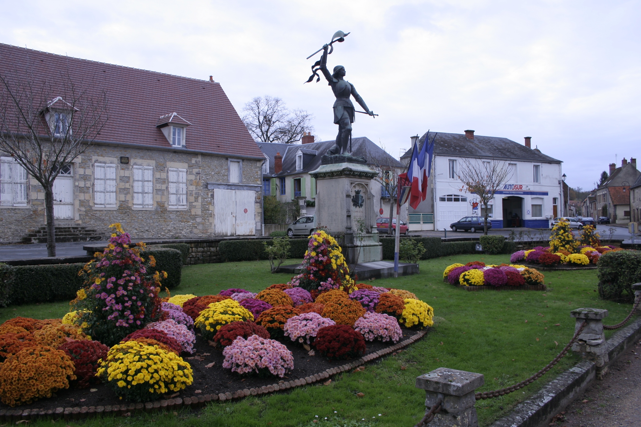 Saint-Pierre-le-Moûtier Jeanne and flowers